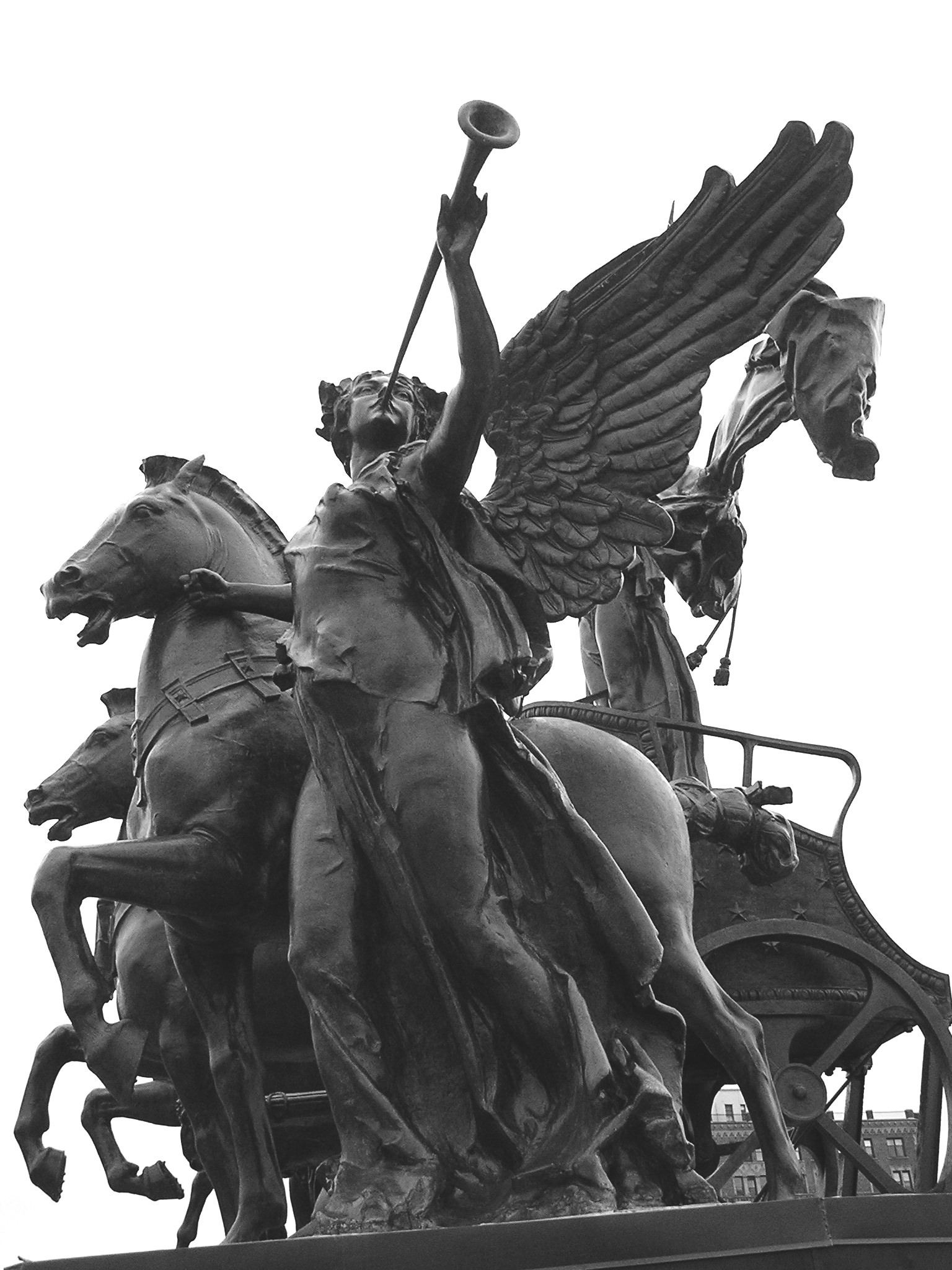 Image:Grand Army Plaza Herald.jpg lightened and monochromed. Feel free to upload a better image tweak.